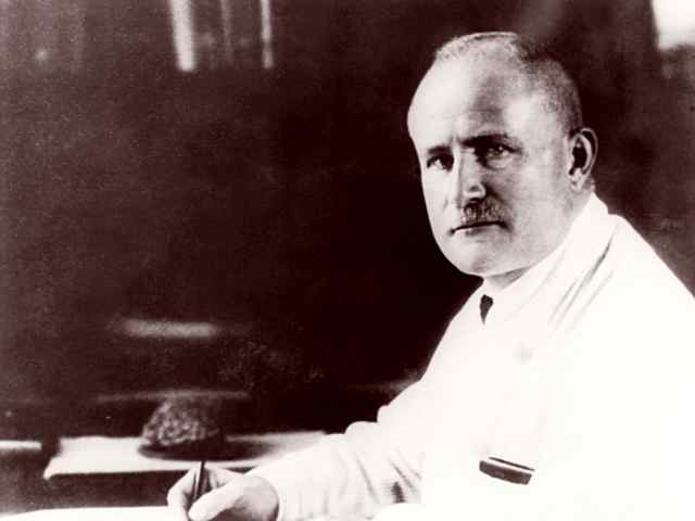 HansBerger_Univ_Jena.jpeg Photo of Hans Berger (1873-1941), inventor of the electroencephalogram (EEG) and Rector of Friedrich Schiller University of Jena (1927-1938)